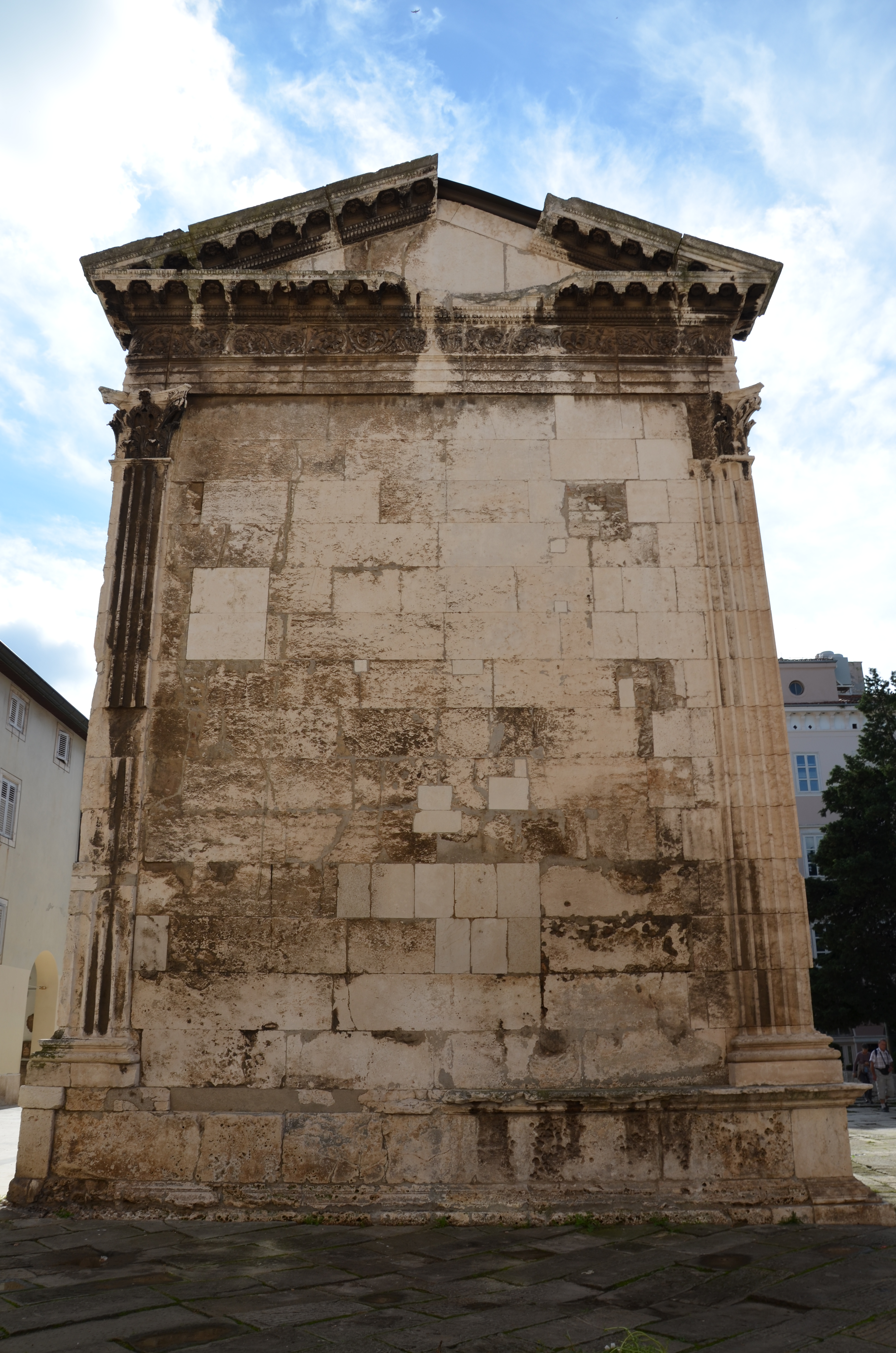 Temple of Augustus, Colonia Pietas Iulia Pola Pollentia Herculanea, Histria